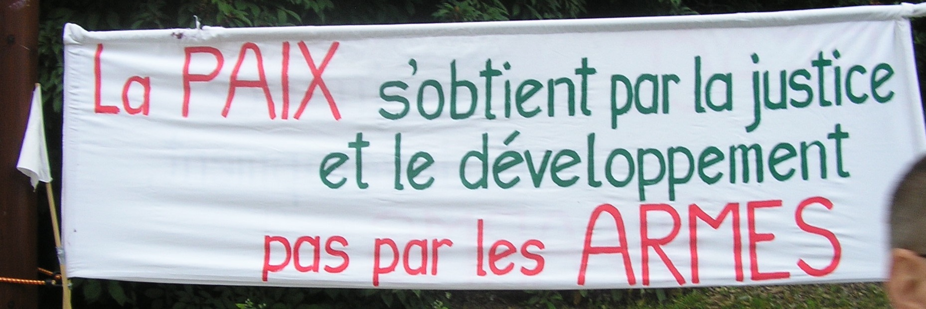 Banner in front of Eurosatory, 14-18 June 2010 : «La paix s'obtient par la justice et le développement, pas par les armes.» Demonstration from quakers.